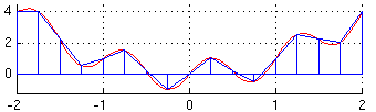 Numerical integration